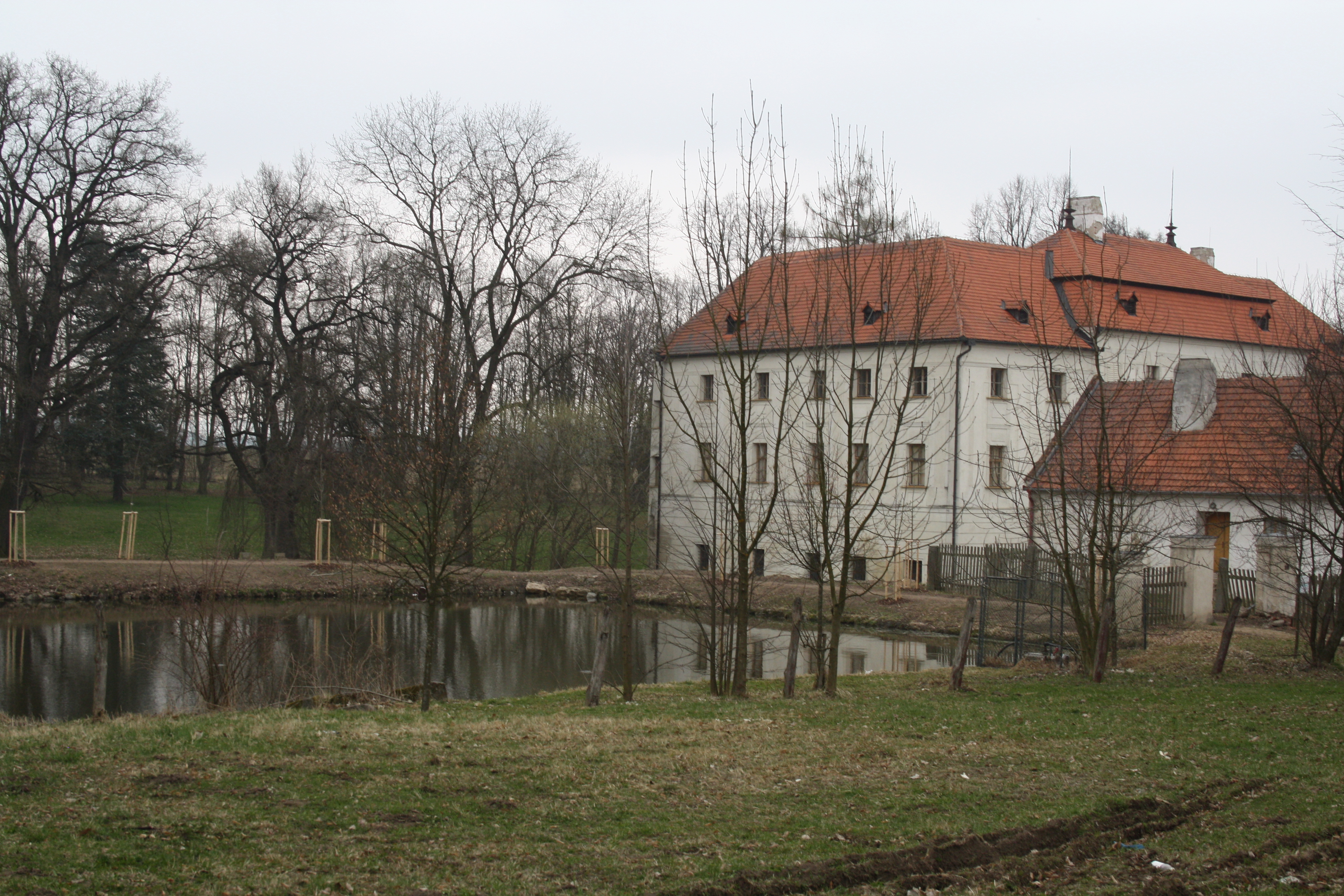 Pond near Budišov Chateau.